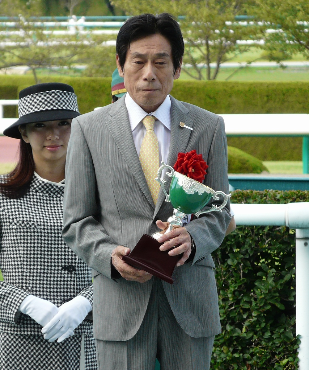 Hiroshi-Kawachi20111001